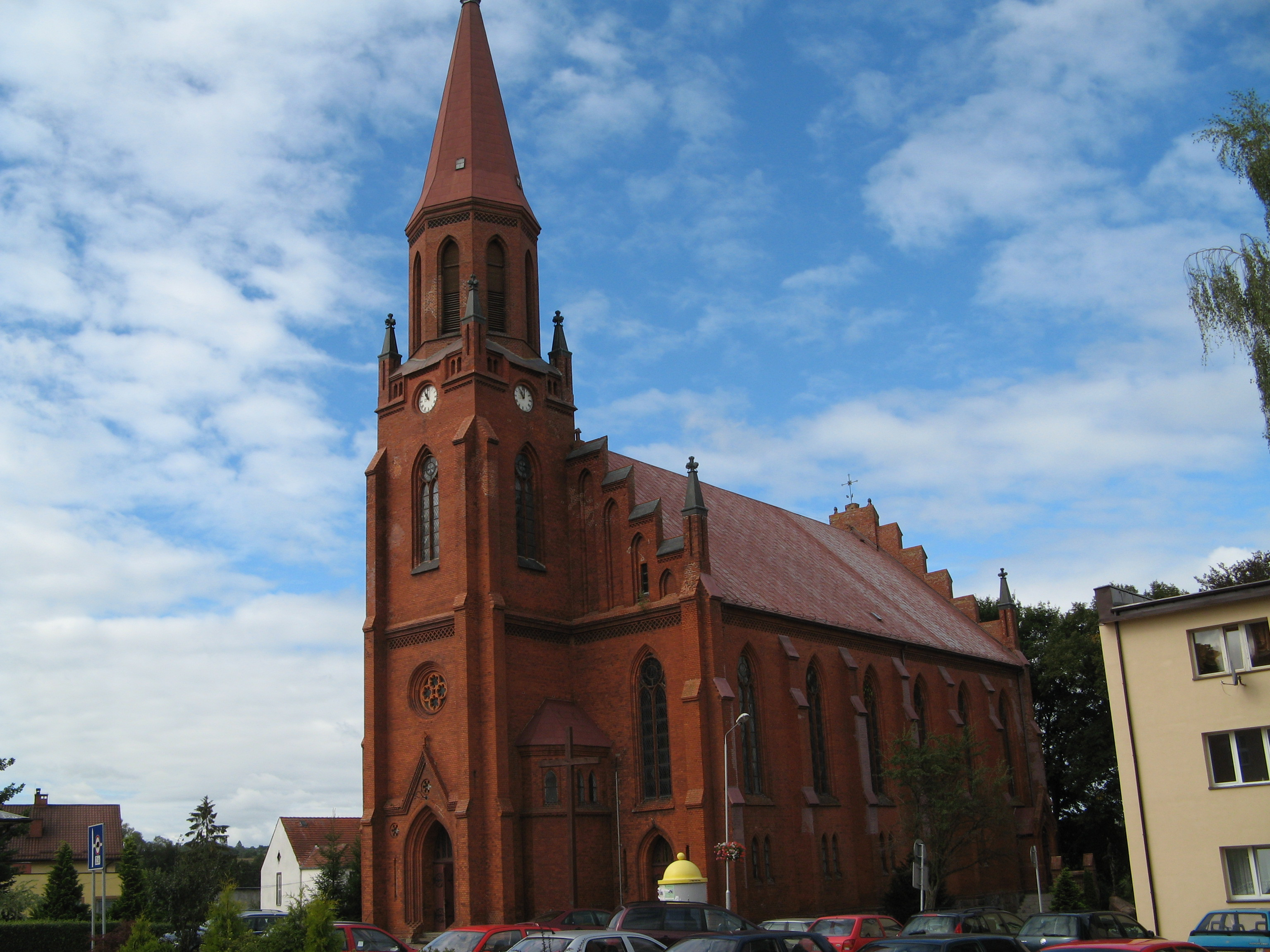 Church in Bobolice (before 1945 german Bublitz)